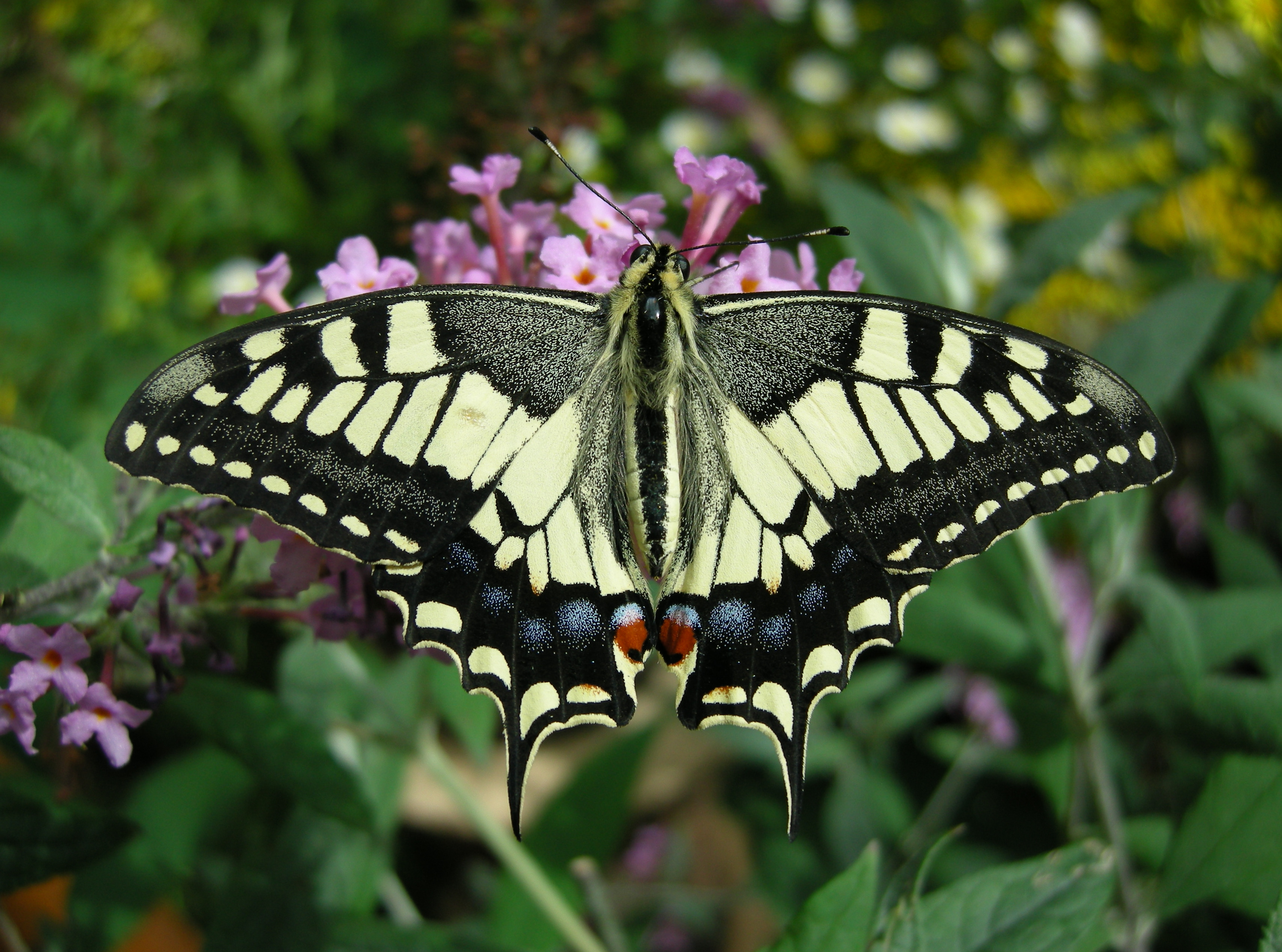 Old World Swallowtail on Buddleja davidii